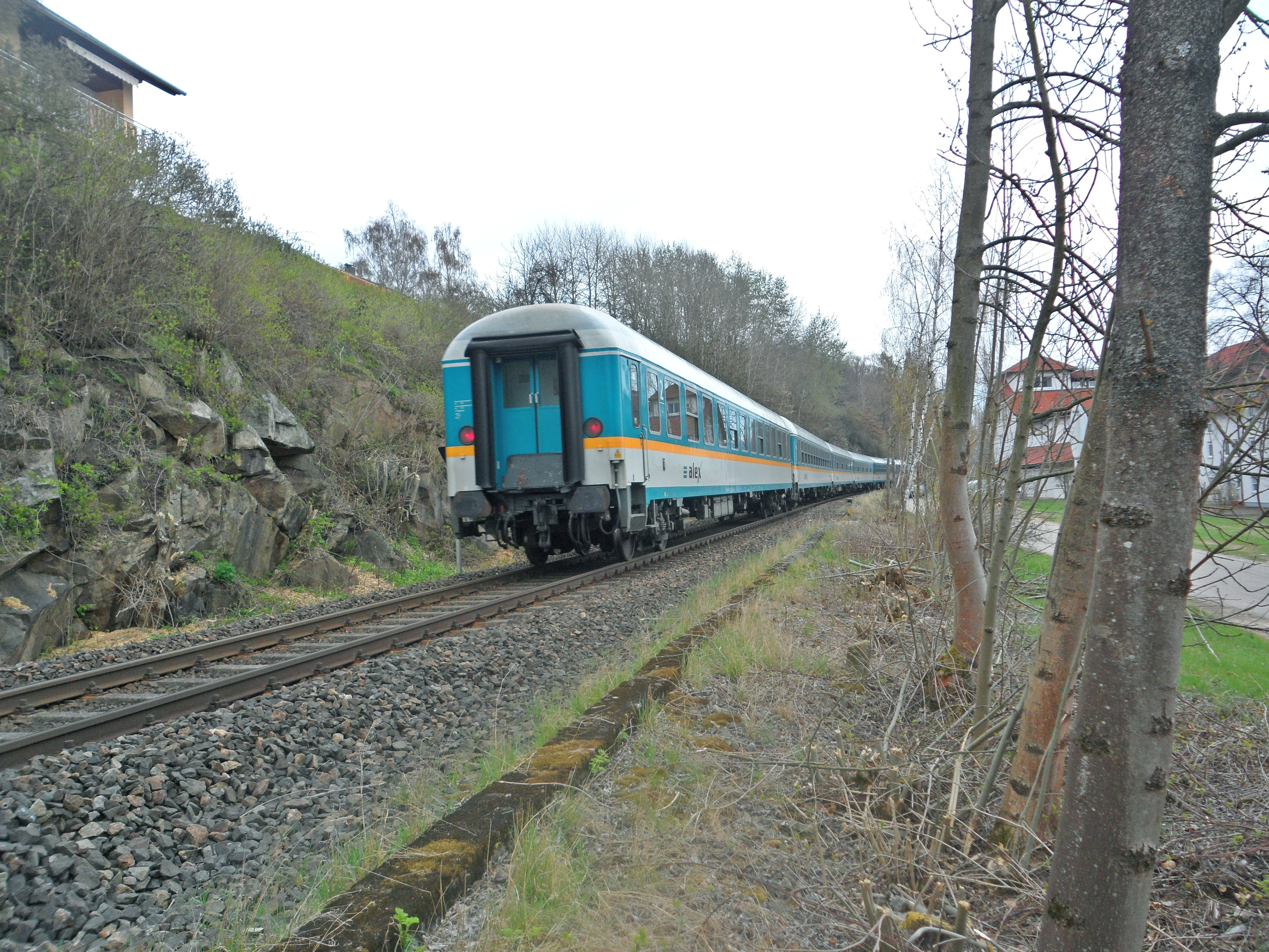 The Alex train on the Schwandorf–Furth im Wald railroad with destination Prag